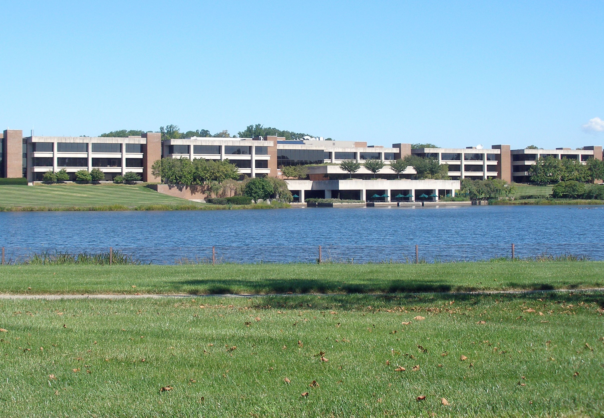 A research campus operated by Bristol-Myers Squibb in Lawrenceville, New Jersey. Other functions included there are New Jersey Corporate HQ, Finance, Legal, and HR. The building is located at U.S. Route 206 and Province Line Road, and generally has an address along the lines of 3551 Lawrenceville, Princeton Rd, Lawrence Township, NJ. Photographed by user Coolcaesar on September 2, en:2007.